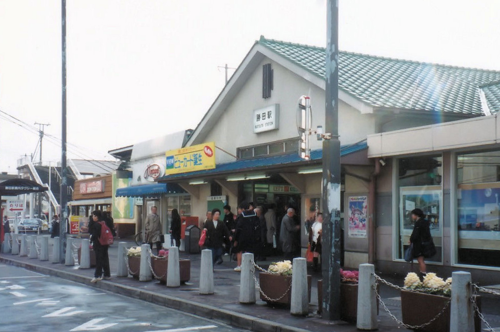 Katsuta Station in Ibaraki Prefecture, Japan, before rebuilding